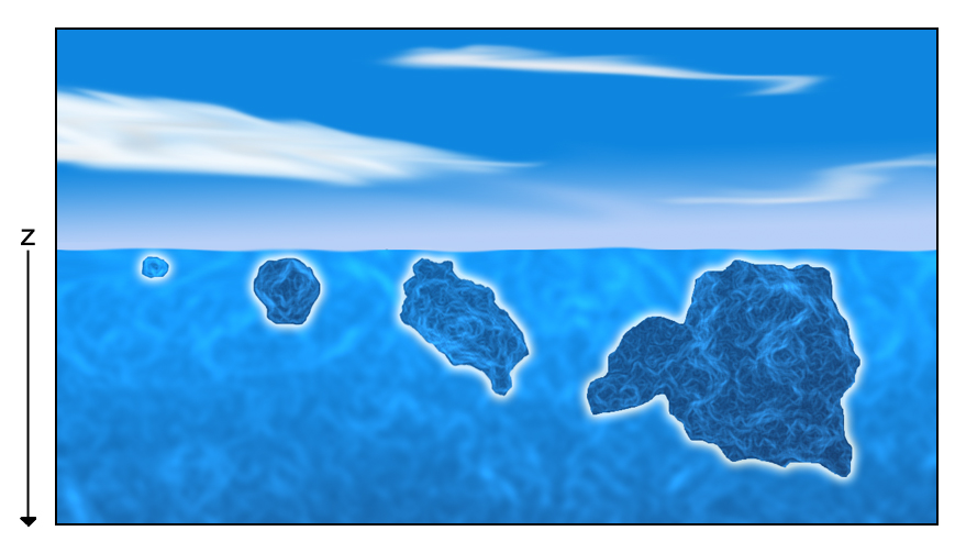 This is a picture of a marine surface layer.